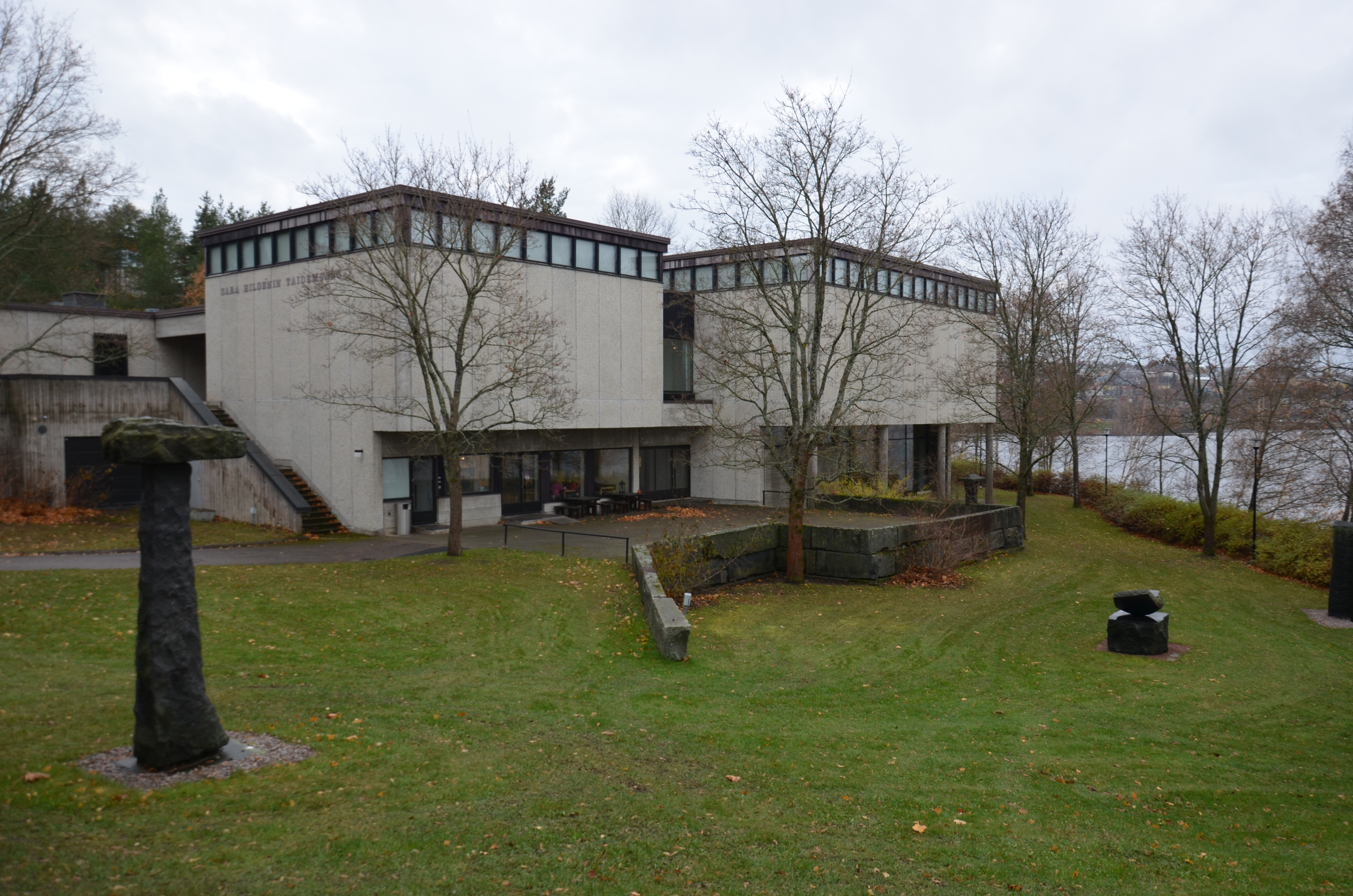 Sara Hildén Art Museum, Tampere, Finland